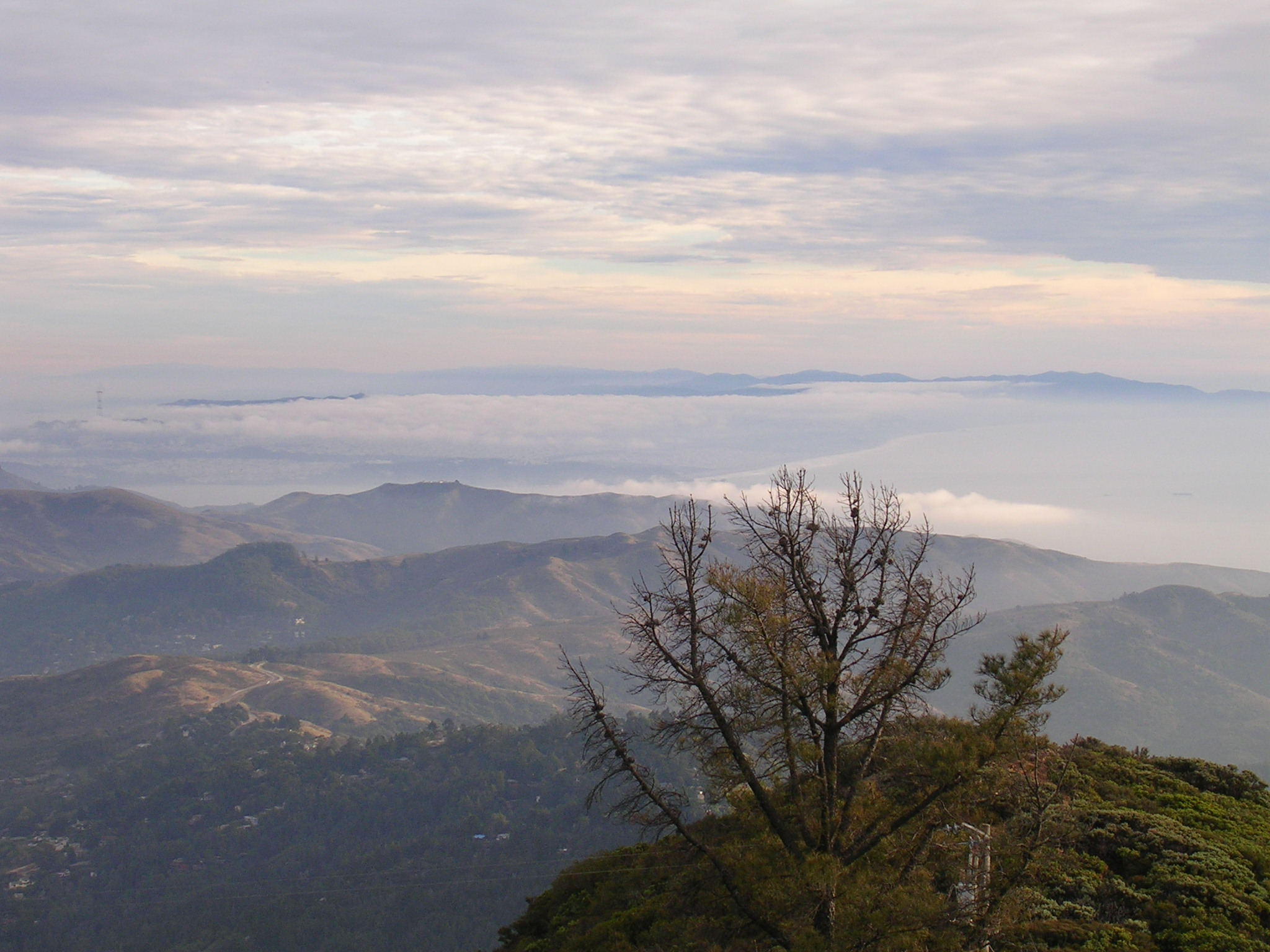 Taken by me in 2005.